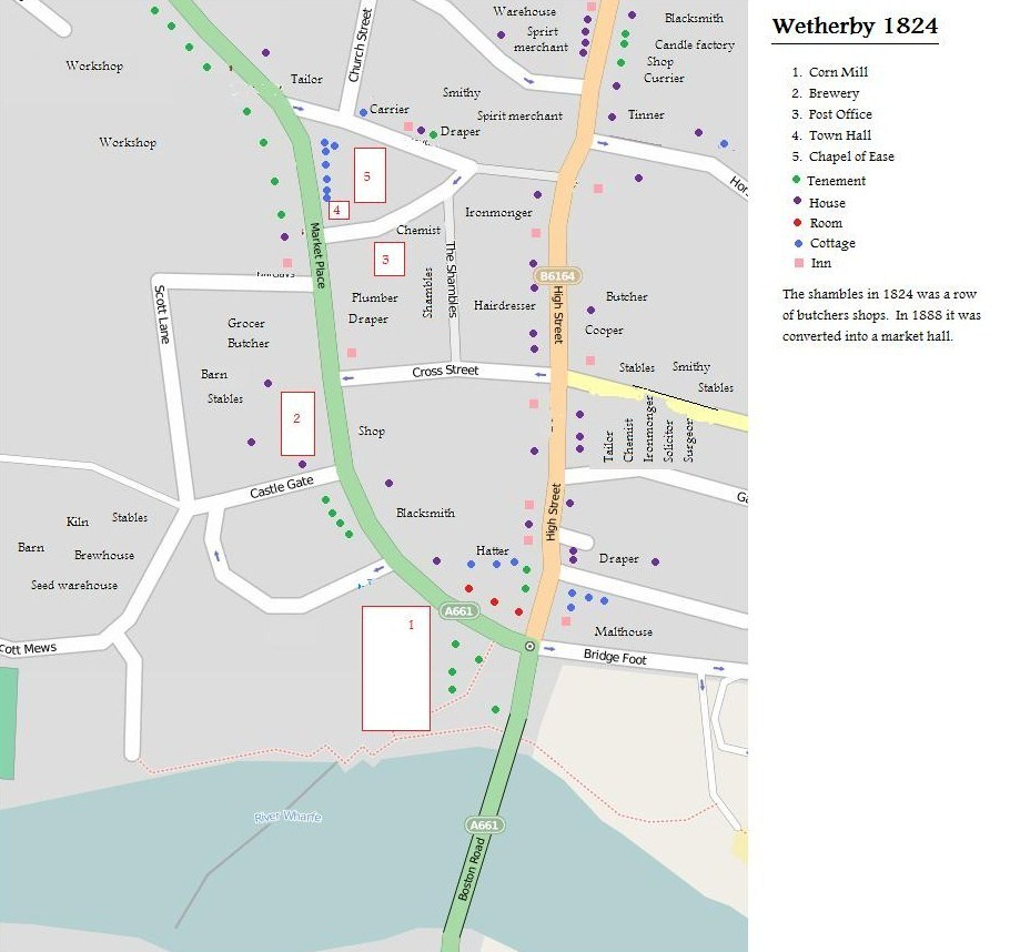 Wetherby Town Centre. Inset over it are the locations of residences, businesses and landmarks as it was in 1824 the year of the great sale of Wetherby. Source for this information is ISBN 0 9511968 0 4 page 85. Locations marked as an inn include public houses. Map taken from Open Street Map ( on Thursday 4th July 2013.